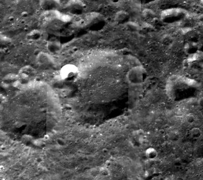 Clementine image from Map-A-Planet